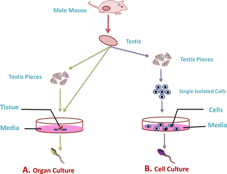 This image shows the difference in processing between testis organ culture and cell culture in a male mouse. Published on a Creative Common Lisence in 'Oncotarget' an Open Access Impact Journal in 2017.